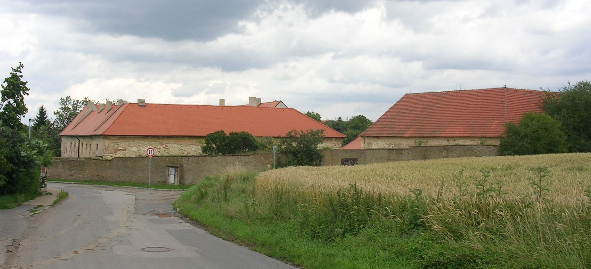 Suchdol, Prague, the Czech Republic. - Google Maps - Google Earth